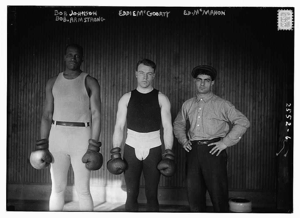 Bob Armstrong, Eddie McGoorty, and Ed McMahon Bain News Service,, publisher. Bob Armstrong, Eddie McGoorty, Ed McMahon [between ca. 1910 and ca. 1915] 1 negative : glass ; 5 x 7 in. or smaller. Notes: Title from unverified data provided by the Bain News Service on the negatives or caption cards. Forms part of: George Grantham Bain Collection (Library of Congress). Format: Glass negatives. Repository: Library of Congress, Prints and Photographs Division, Washington, D.C. 20540 USA, General information about the Bain Collection is available at Persistent URL: Call Number: LC-B2- 2552-6